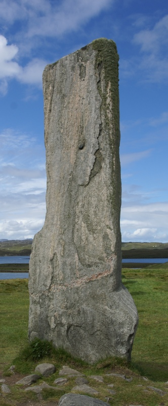 Calanais Standing Stones, Lewis, Scotland